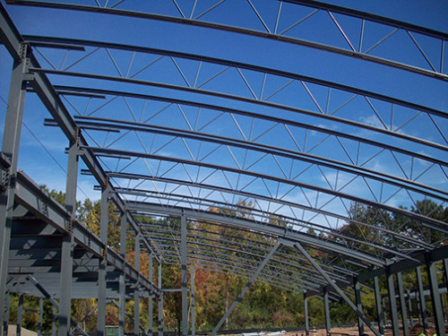 Steel joists with arched top and bottom chords being erected.